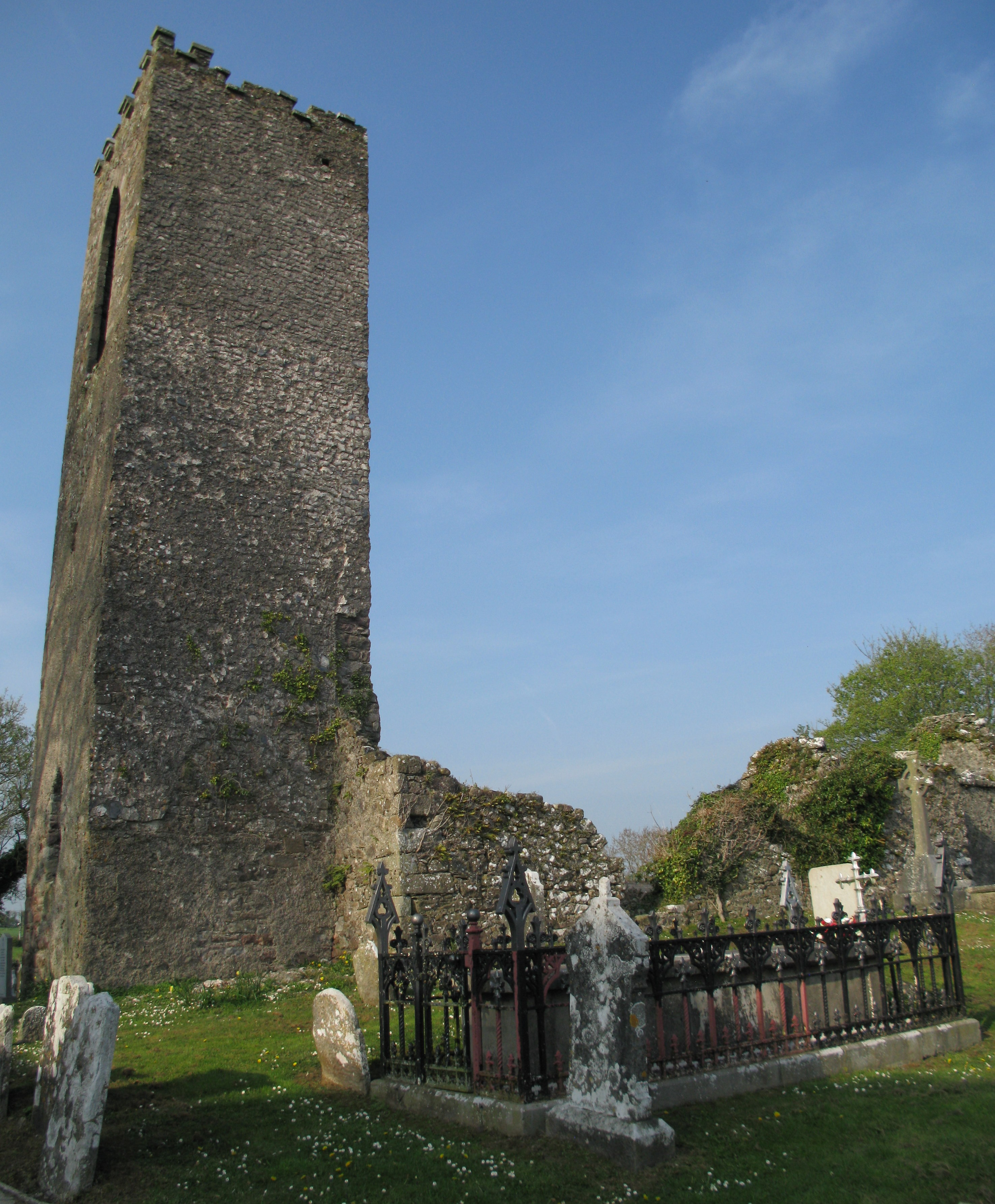 Crypt of Fr. Nicholas Sheehy beside church ruin at Shranrahan Graveyard, Clogheen, County Tipperary